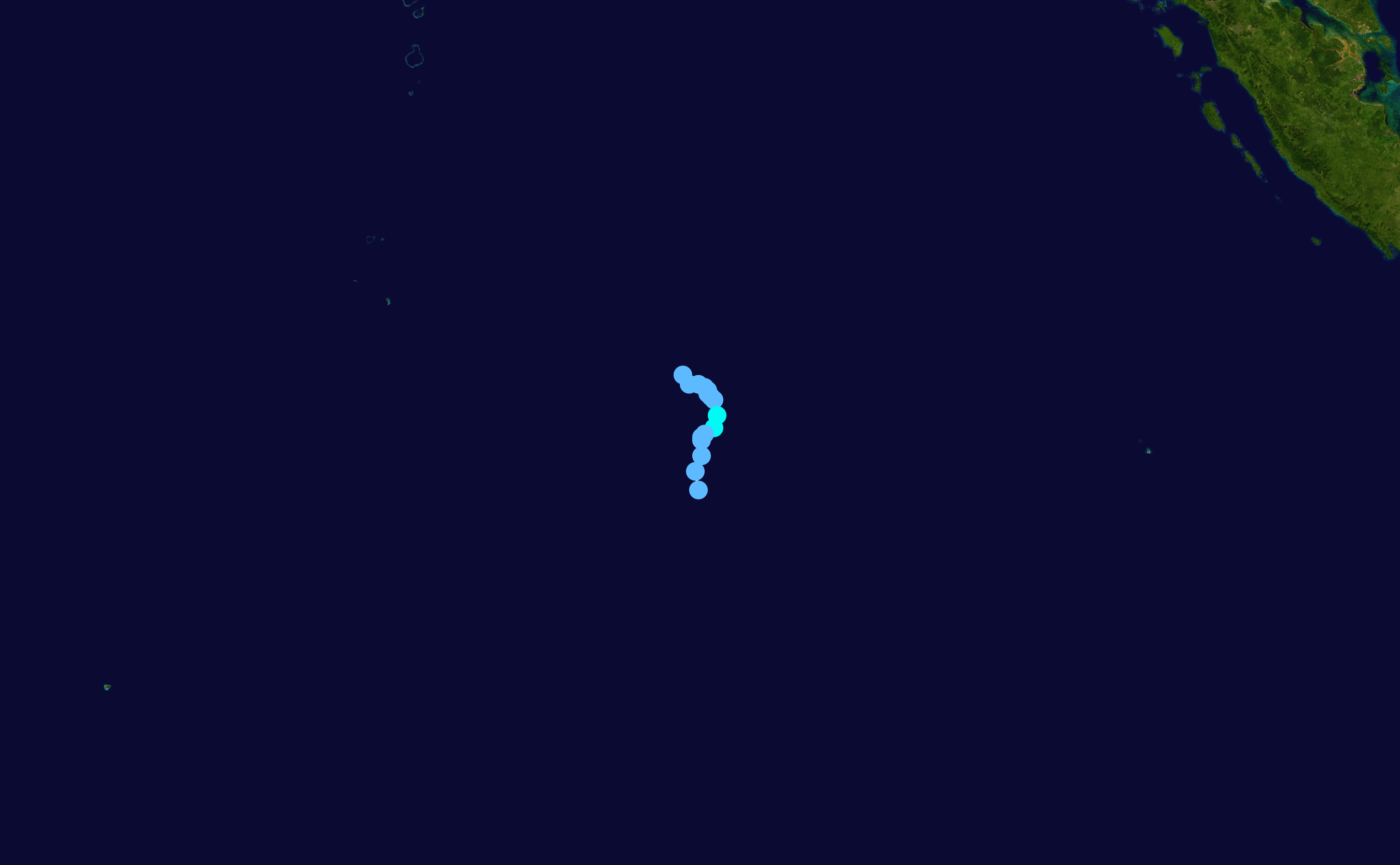 Tropical Storm One-S (2001) track. Uses the color scheme from the Saffir-Simpson Hurricane Scale.